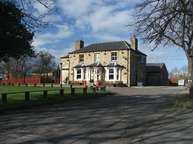 The White Horse, Sharlston. Looking NW.